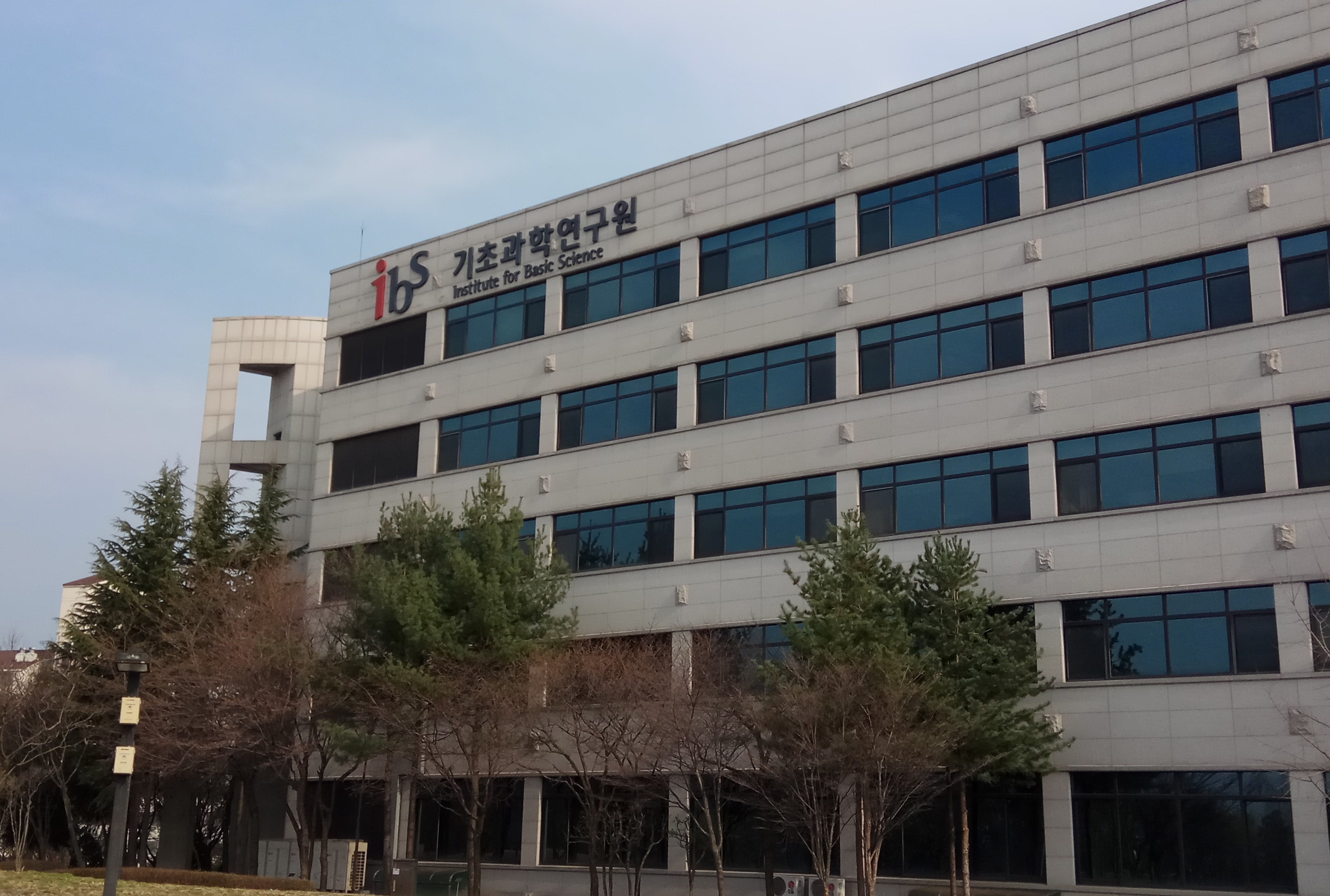 Institute for Basic Science in Daejeon, South Korea prior to the relocation in winter 2017.